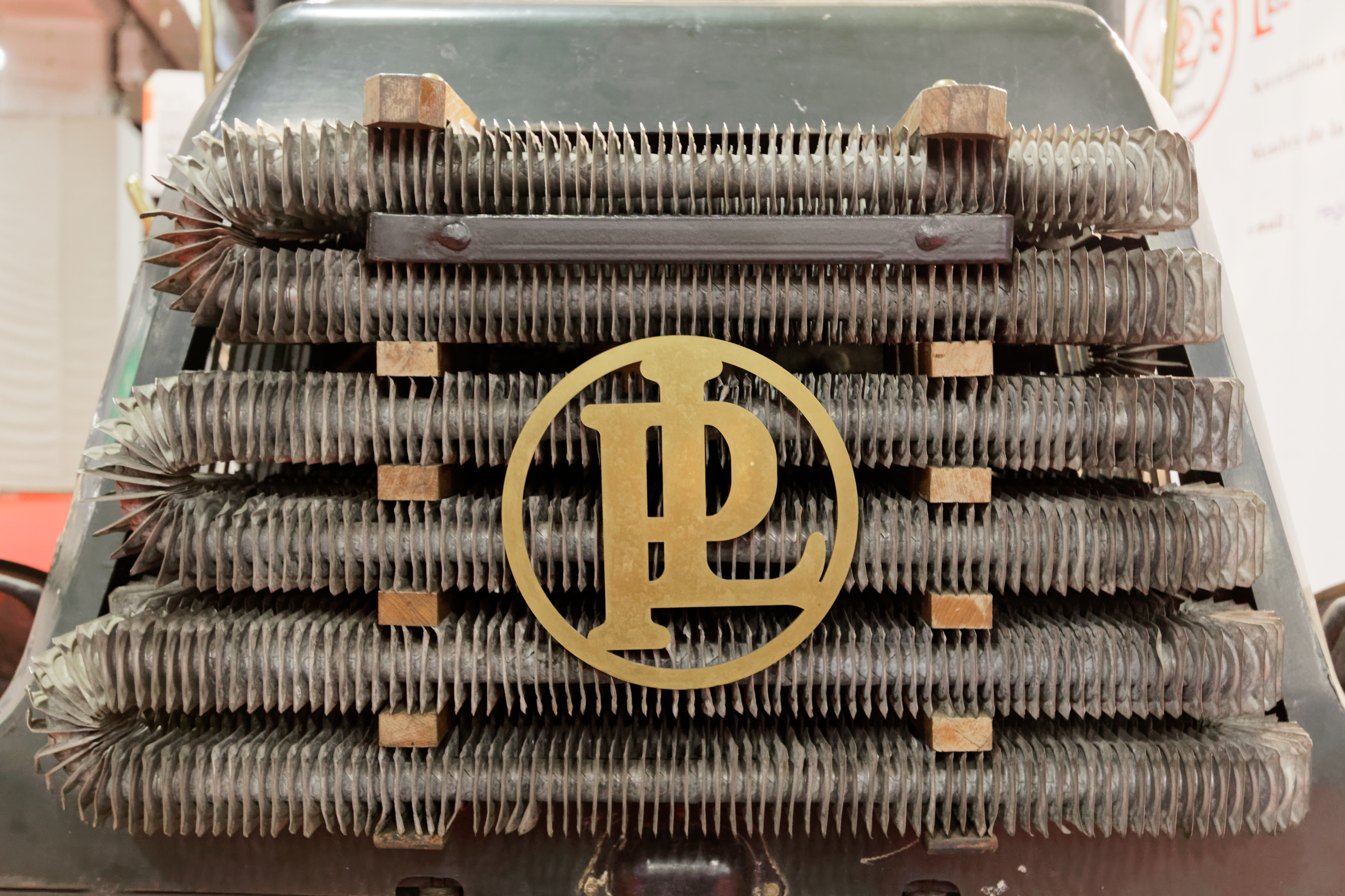 Closeup of the radiator of an 1897 Panhard & Levassor 6CV charrette anglaise, with an M2F two-cylinder engine of 1648cc and a type A1/A2 chassis, displayed during the Rétromobile 2017 show. The original rear-mounted radiator was replaced by this new front-mounted one in 1902-1903.